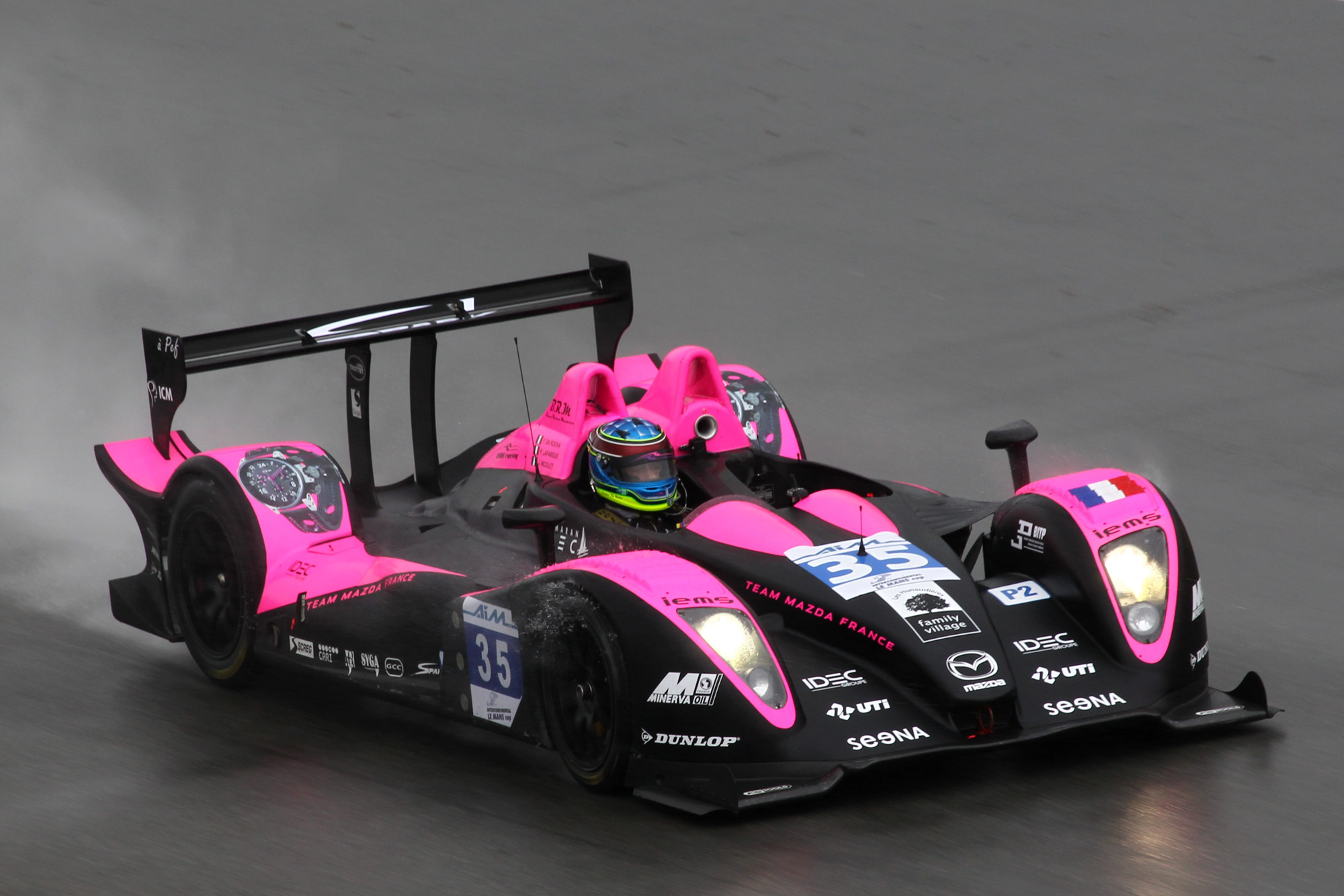 OAK Racing racing at Le Mans, 2011.